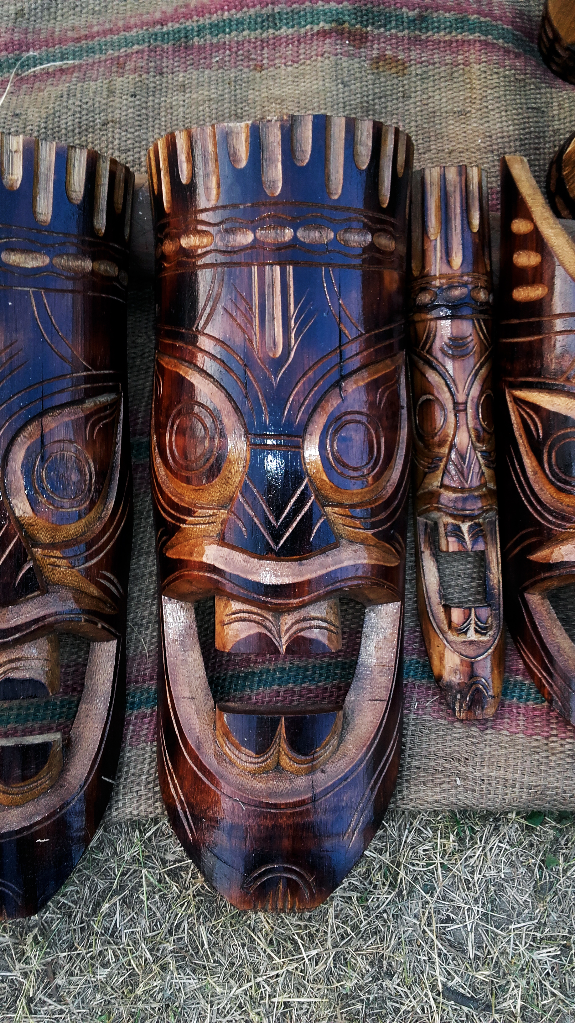 mask of West Bengal made from bamboo stock, Sabala Mela, Kolkata